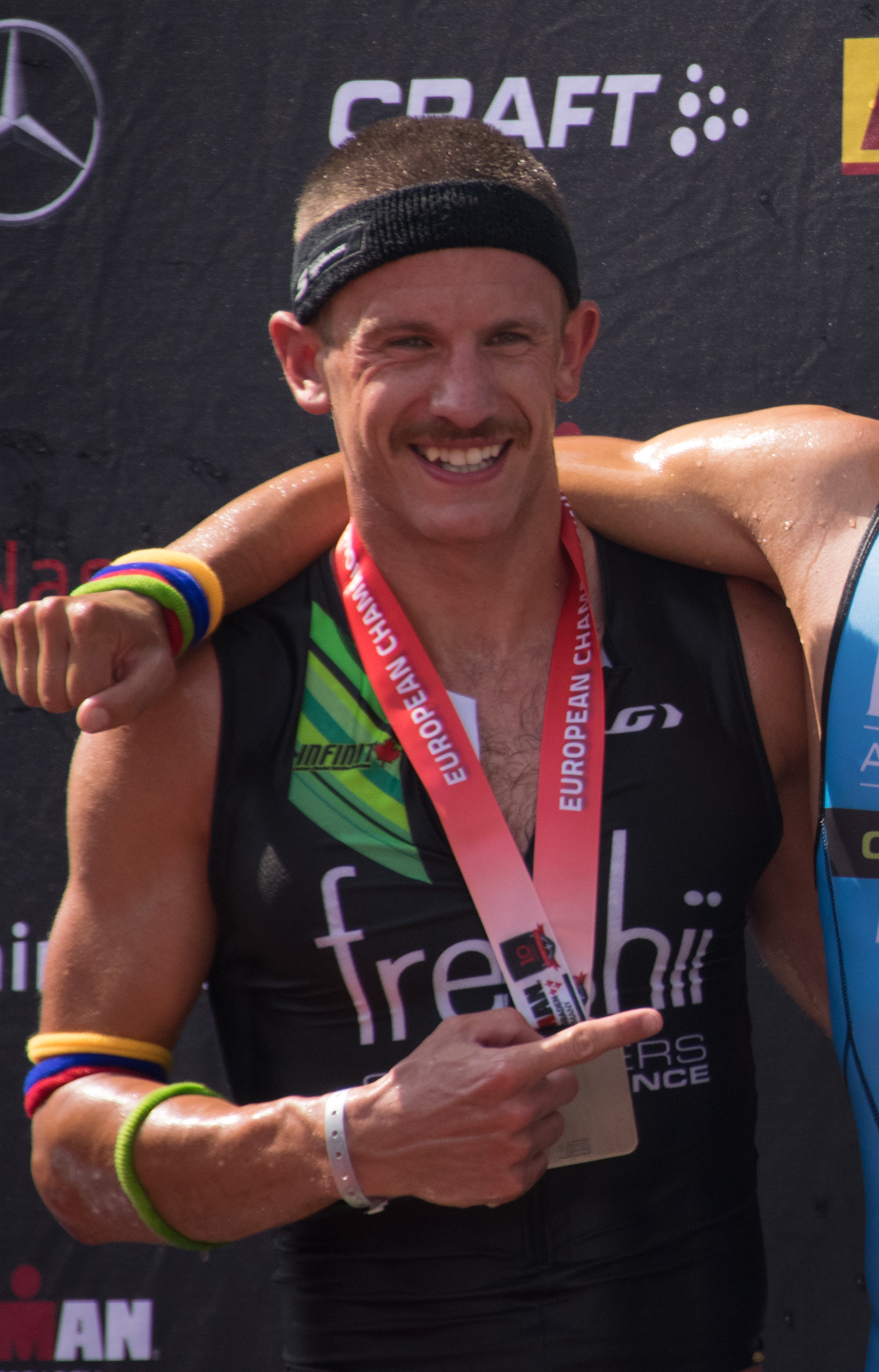 Ironman 70.3 Germany am 14. August 2016 in Wiesbaden